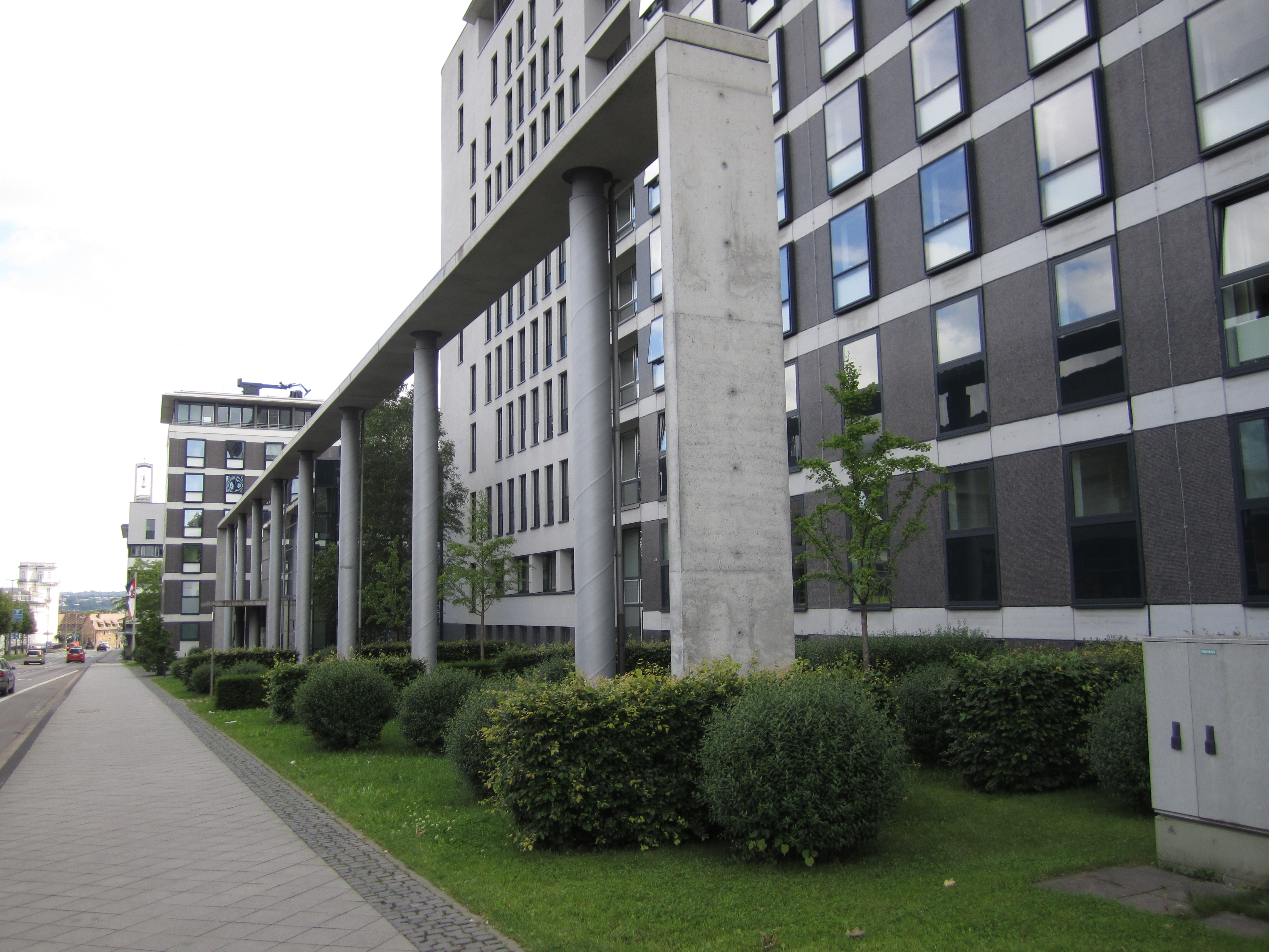 Court in Kassel, Germany.